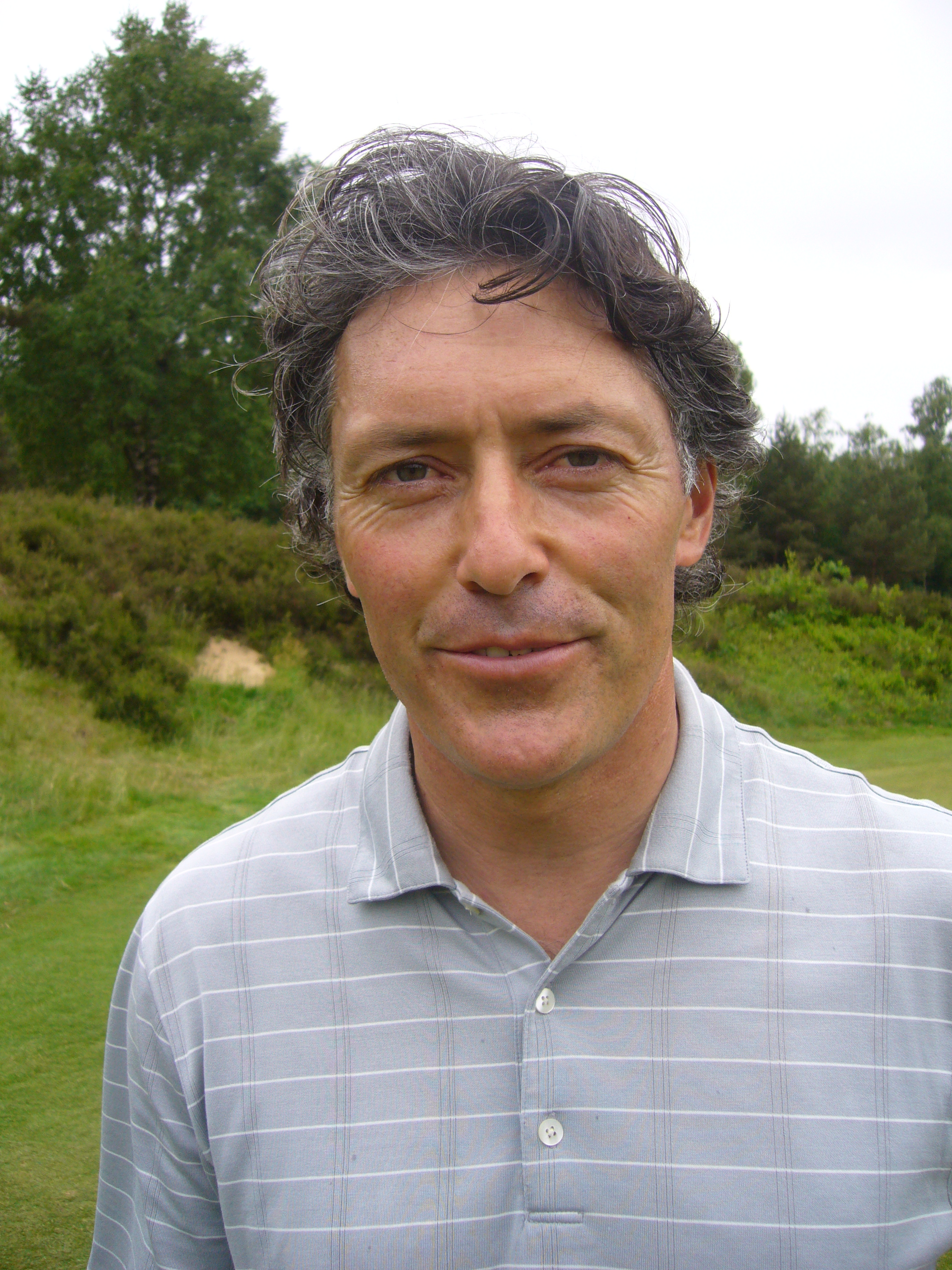 Peter Smith, Schots golfprofessional